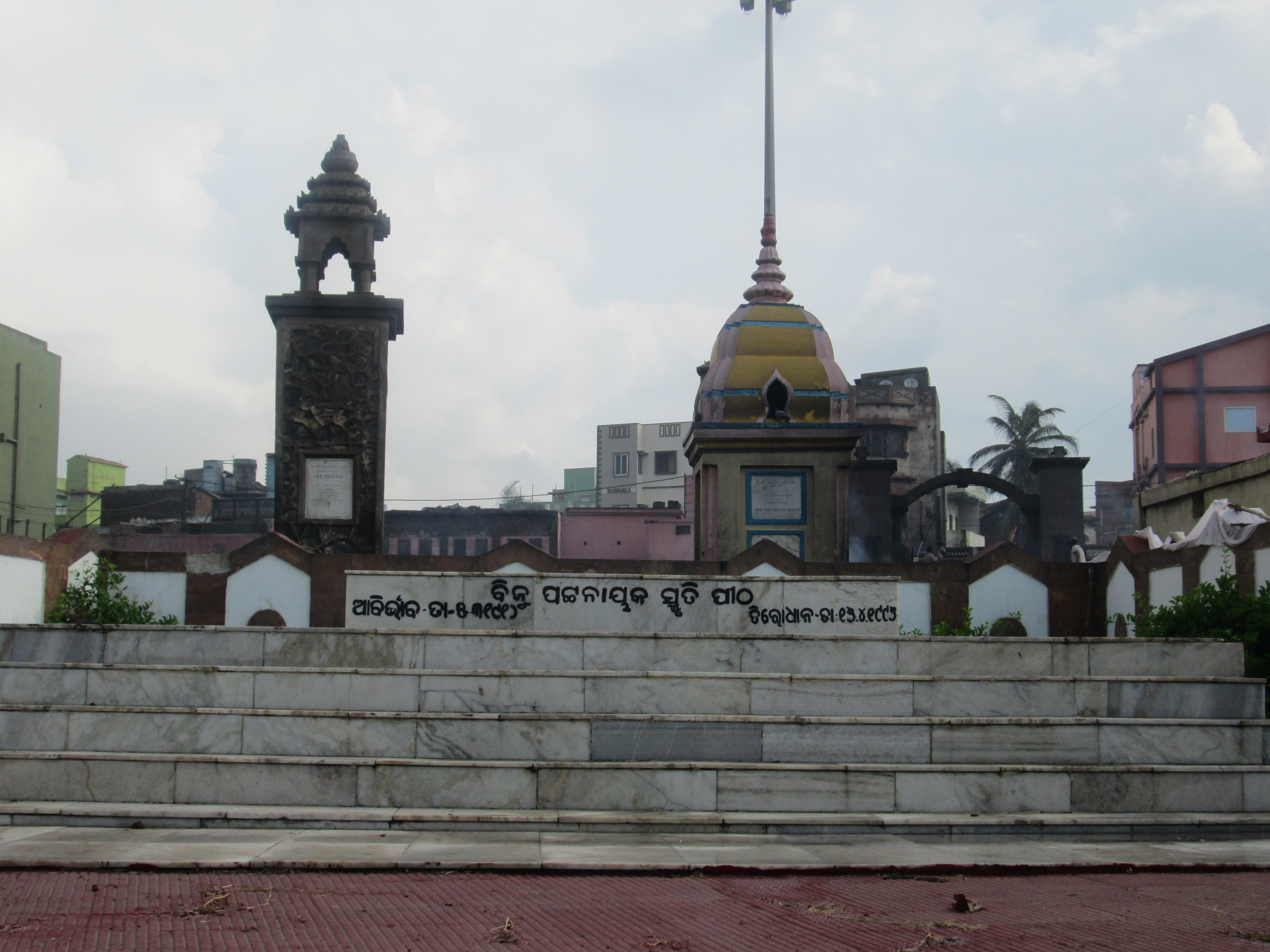 Biju Patnaik Memorial, Swargadwar, Puri